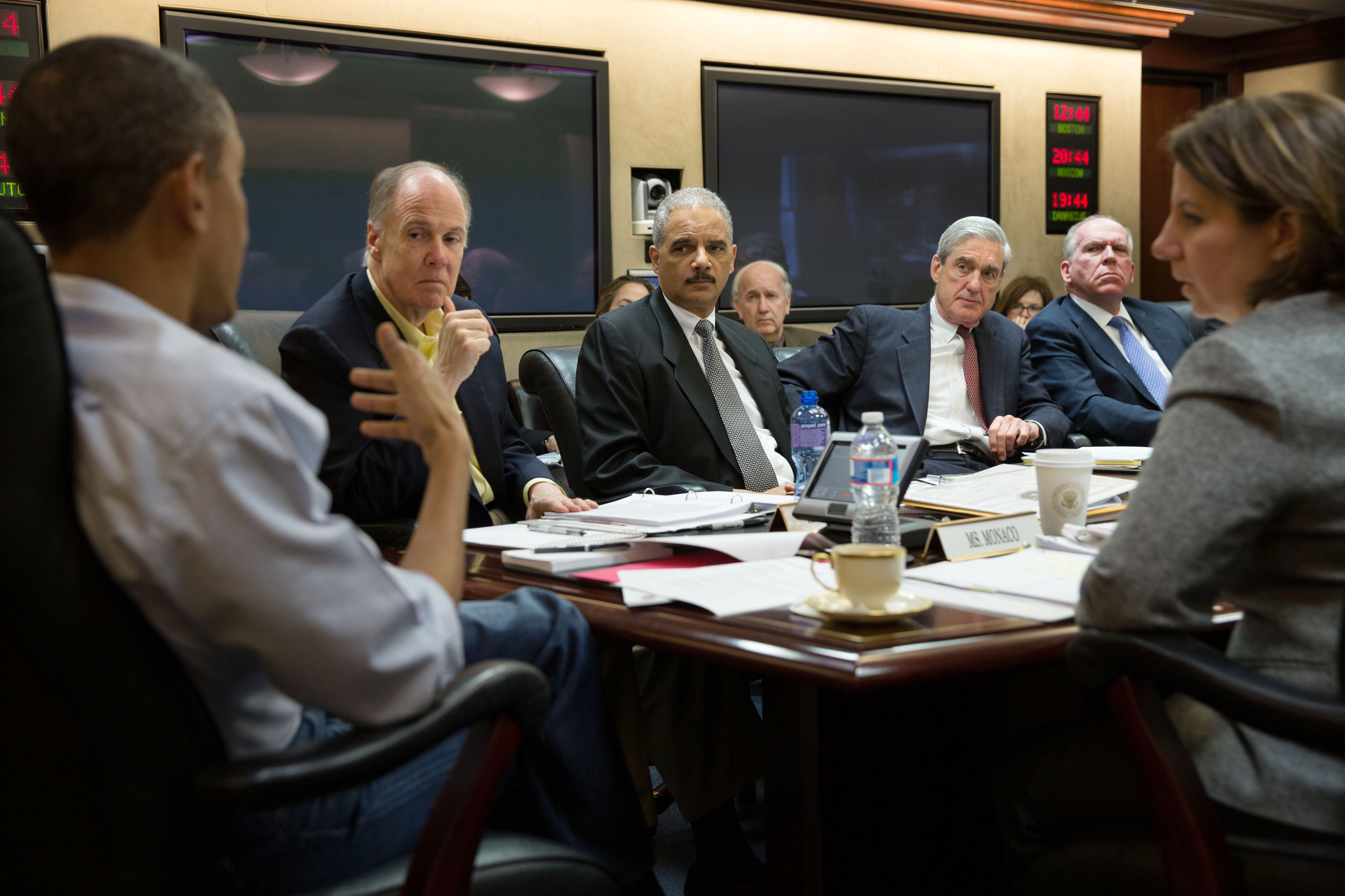 United States President Barack Obama holds a meeting in the White House Situation Room on 20 April 2013 on the continuing investigation into the Boston Marathon bombing. From left at the table, National Security Advisor Tom Donilon, Attorney General Eric Holder, FBI Director Robert Mueller, Director of CIA John Brennan, and Lisa Monaco, Assistant to the President of Homeland Security and Counterterrorism.